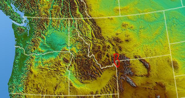 Location map of the Gallatin Range, in Montana/Wyoming, USA